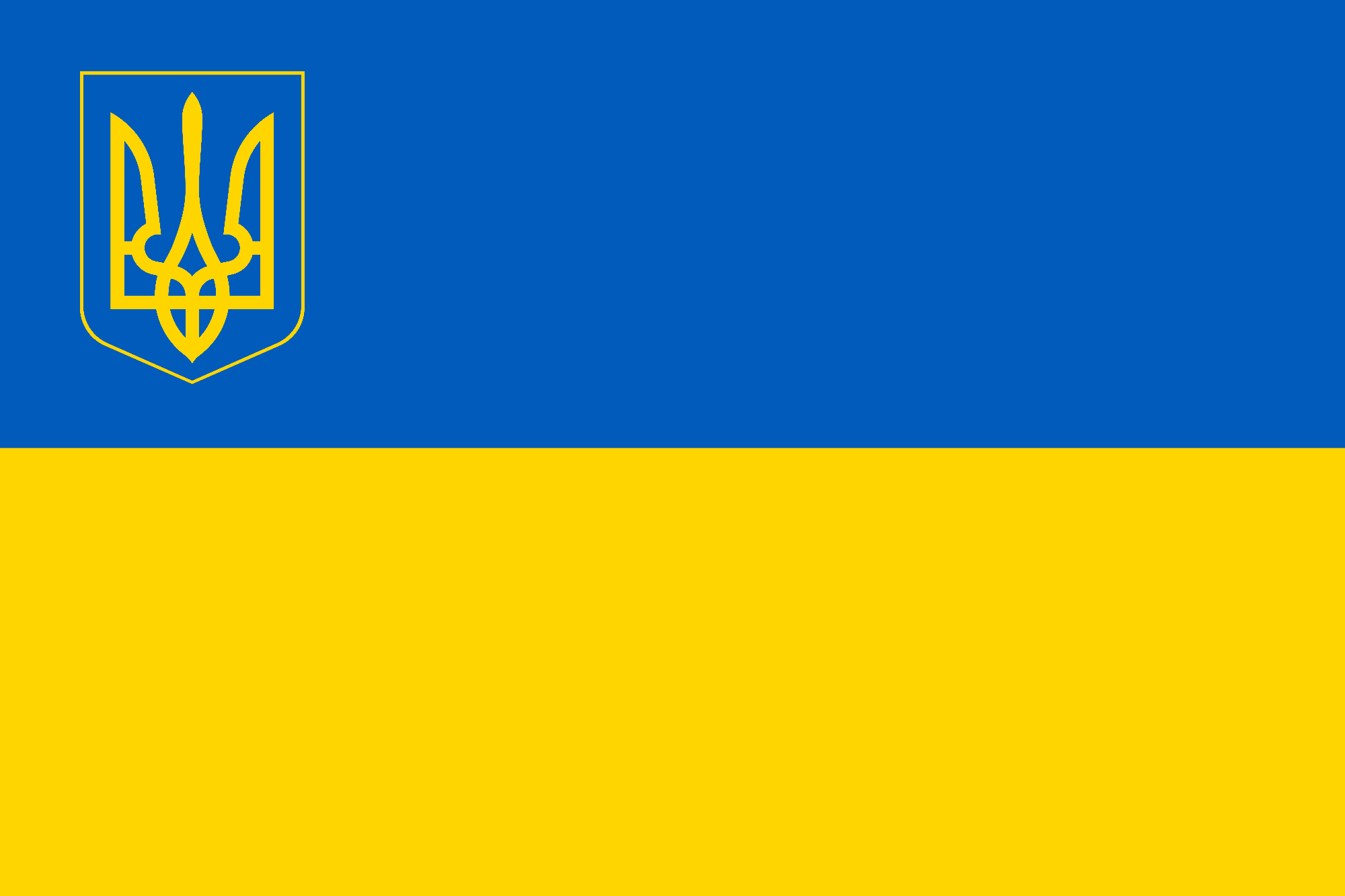 Flag of Ukraine